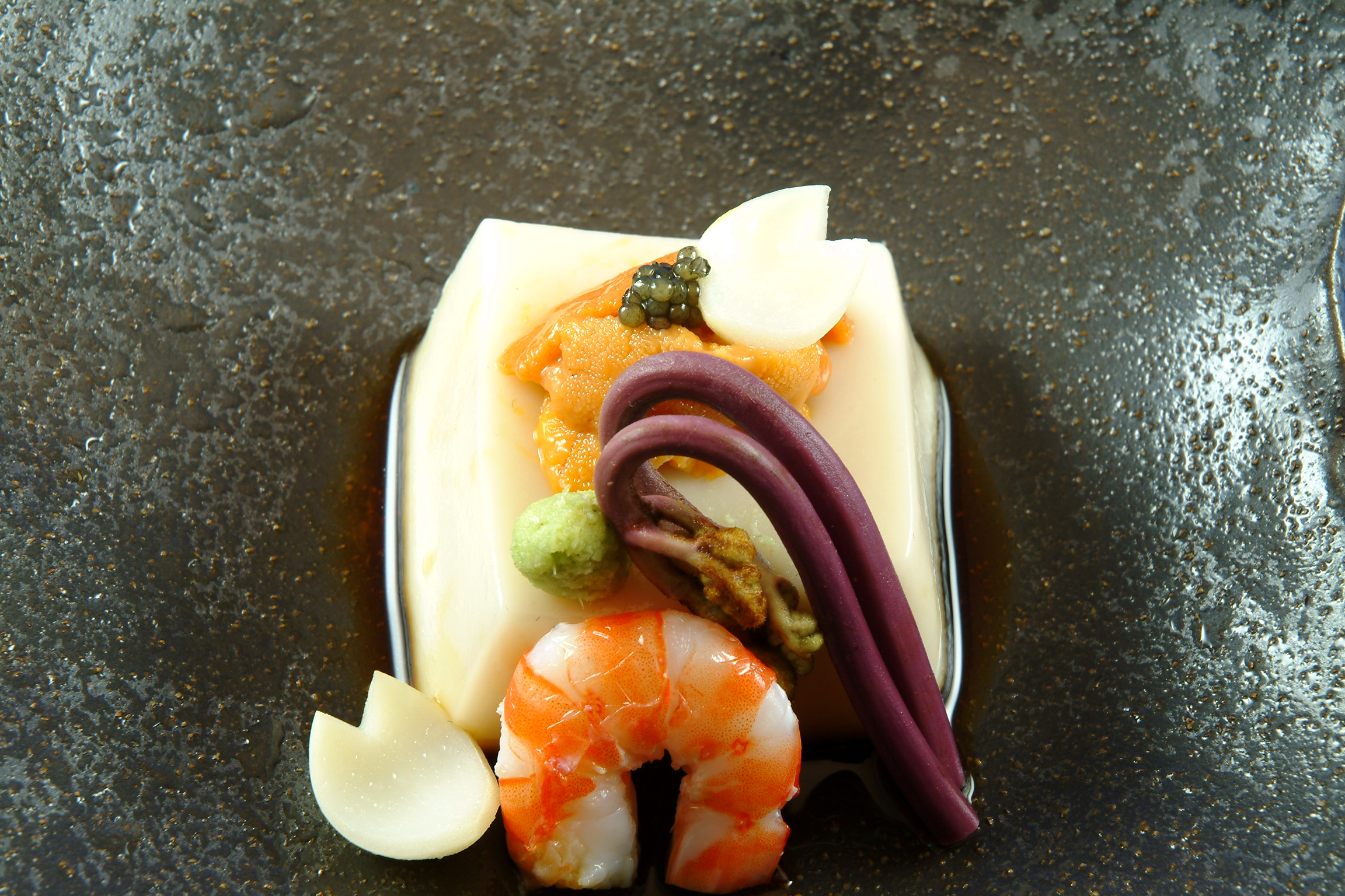 Goma tofu on Kobachi by Sanda-Minoya,Hinomoto-Shokusan 三田見野屋（日乃本食産製）胡麻豆腐